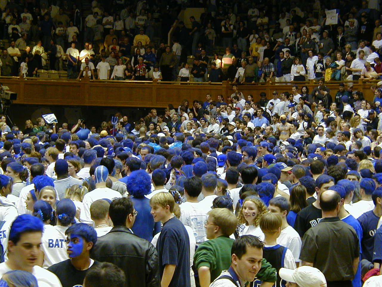 Photo taken by me user debivort February 2000